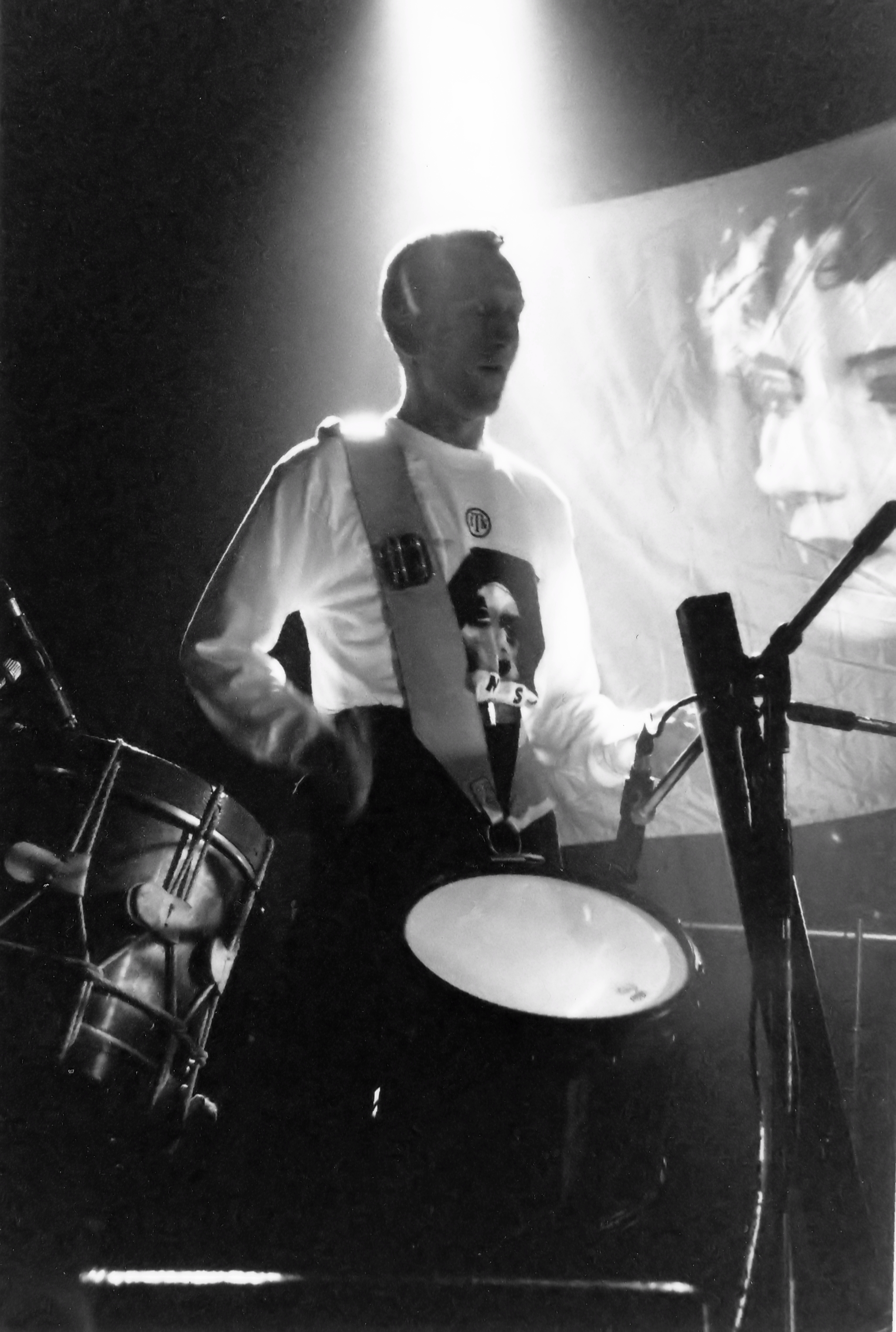 In the Nursery, live at Theaterfabrik, Unterföhring near Munich, Germany in 1992